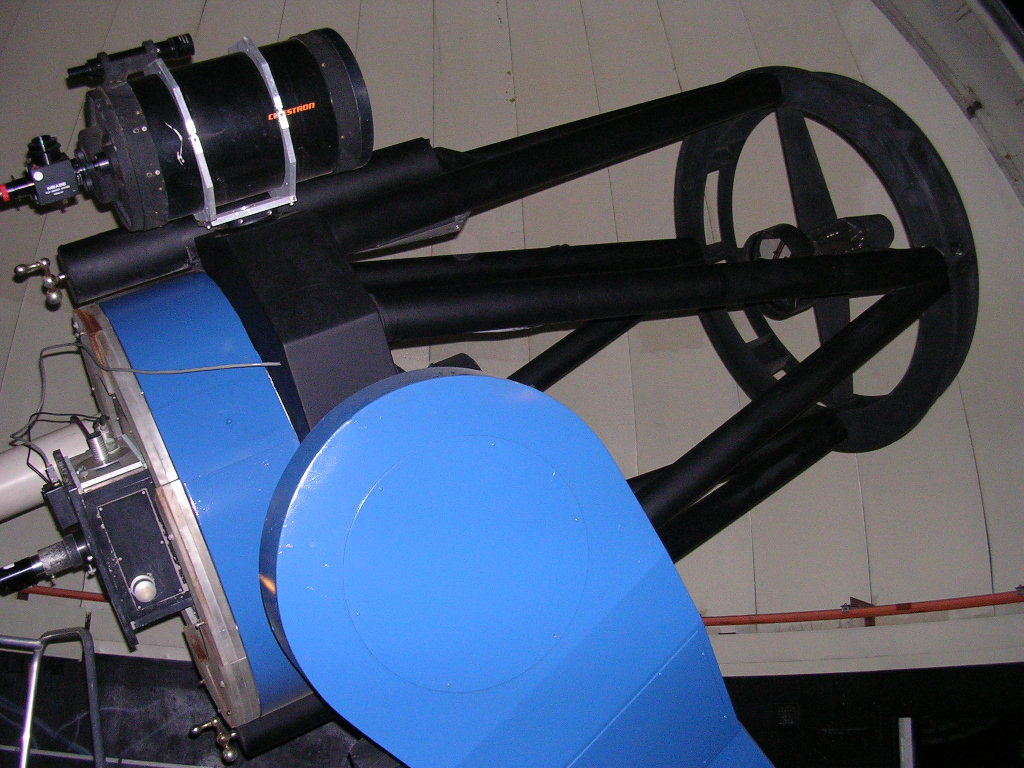 0.9 meter (36-inch) Cassegrain reflector telescope at the Fernbank Observatory, 156 Heaton Park Drive, unincorporated DeKalb County, Georgia. 33°46′44″N 84°19′5″W / 33.77889°N 84.31806°W